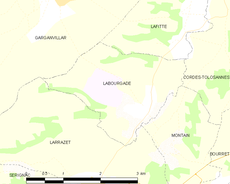 Map of French municipality Labourgade